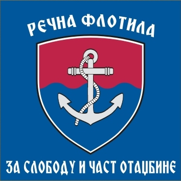 Flag of Serbian River Flotilla Српски (ћирилица): Застава Речне Флотиле Srpski (latinica): Zastava Rečna Flotila